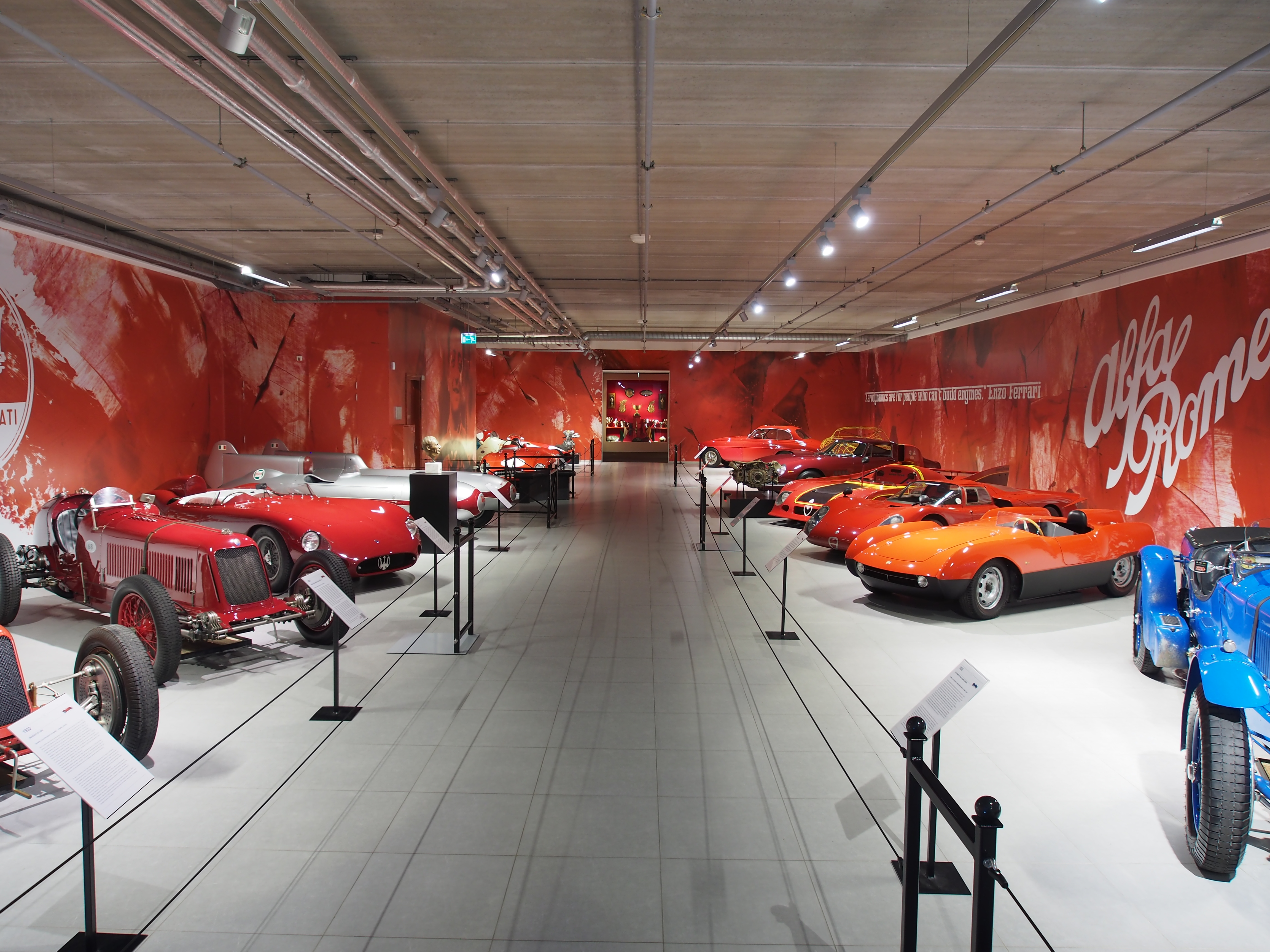 Photographed at the Louwman museum.